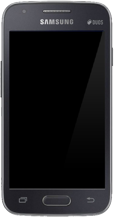 A model of Samsung Galaxy S Duos 3